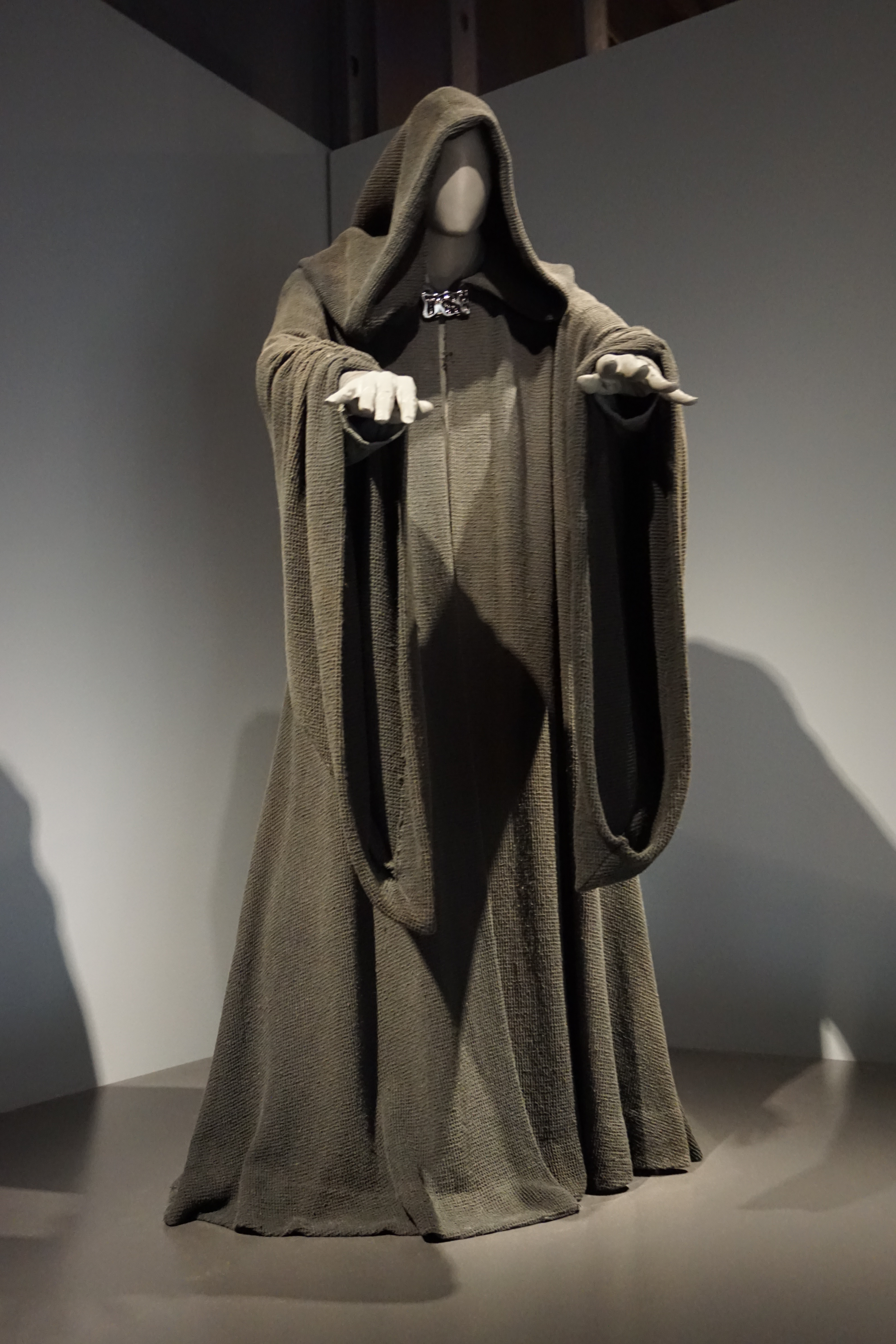 Emperor Palpatine's Sith robes from Star Wars: Episode VI – Return of the Jedi on display at the Star Wars and the Power of Costume traveling exhibit at the Detroit Institute of Arts in Detroit, Michigan (United States).